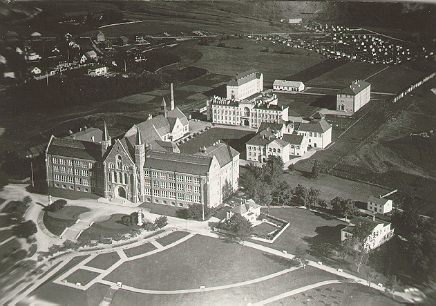 Aerial photo of NTH, The Norwegian Institute of Technology at what is now known as Campus NTNU Gløshaugen, Trondheim. The former NTH departments are now basic building blocks of the Norwegian University of Science and Technology (NTNU). The picture was taken around 1930.